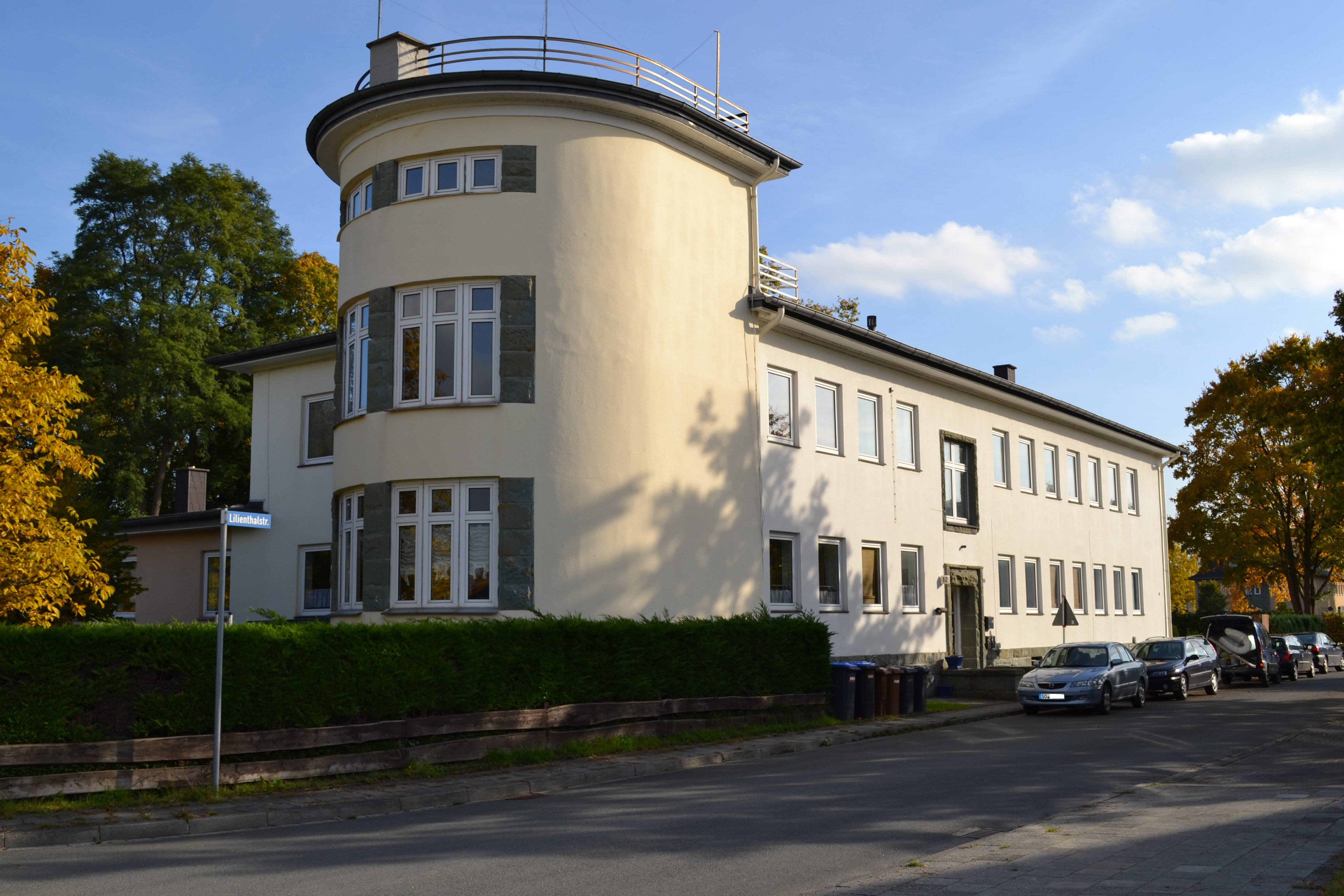 Buildings of former "Luftwaffenkaserne" Lippstadt-Lipperbruch